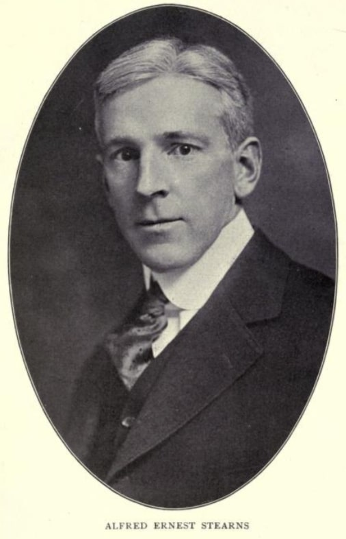 Portrait of Alfred Stearns, 9th Principal of Phillips Academy Andover 1903-1933.